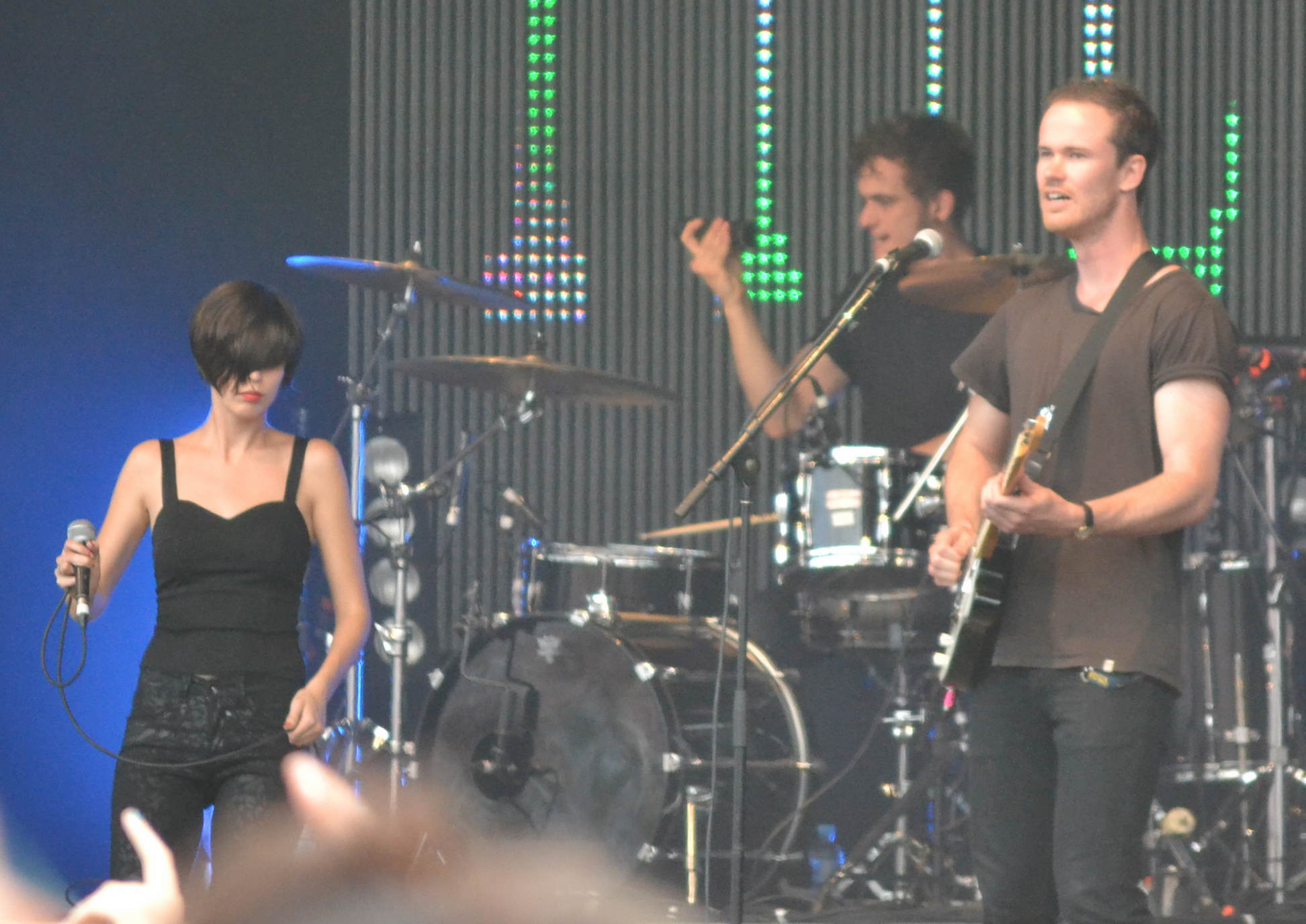 The Jezabels performing at Falls Festival 2012 on 22 January 2012 in Marion Bay, Tasmania.